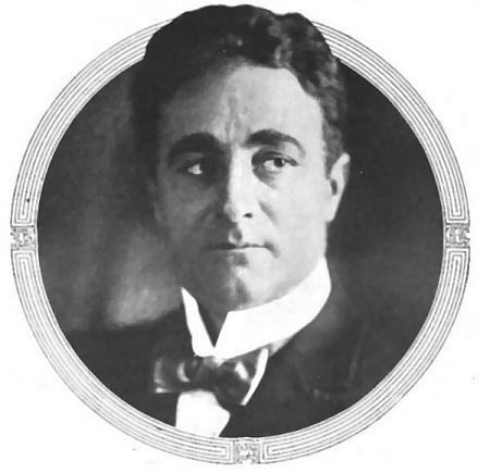 American actor Wilfred Lucas